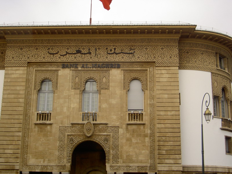 Central seat of the Bank of Morocco (Bank Al-Maghrib) in Rabat. this image was taken by a friend of he:משתמש גילגמש on a trip to morocco. he donates it to commons.